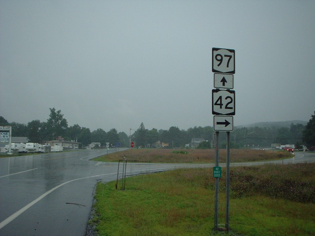 New York State Route 97 and 42 northbound at the split in the hamlet of Sparrowbush.